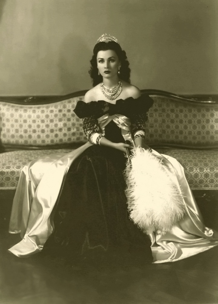 Queen Fawzia of Iran, daughter of the Egyptian king Fuad I, wife to the Iranian shah Mohammad Reza Pahlavi. Official Imperial photo from the Pahlavi court.